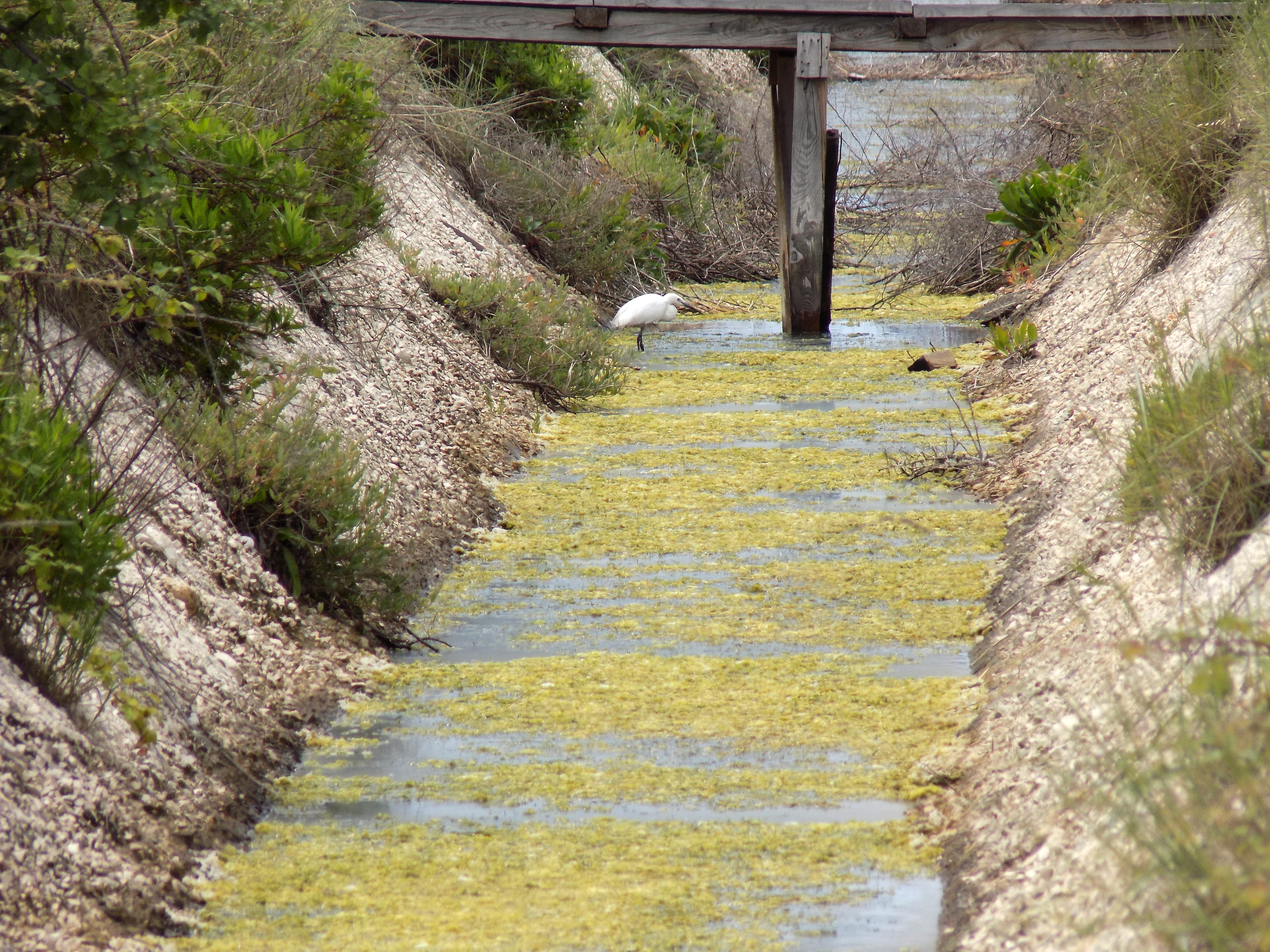 Ulcinj Salinas, important bird area - Little egret in one of the channels (Egretta garzetta)